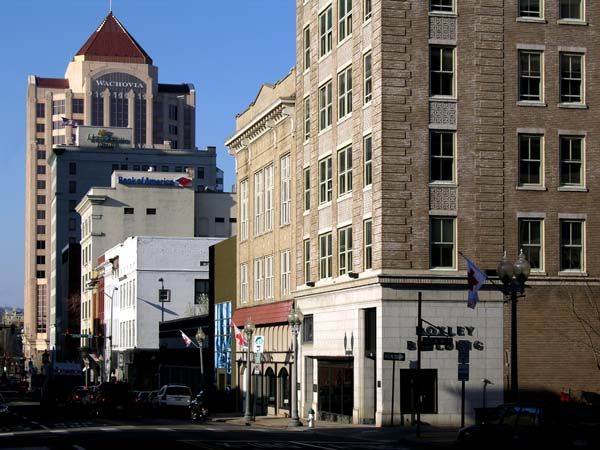 Roanoke Downtown Historic District listed on the National Register of Historic Places in Roanoke, Virginia, USA